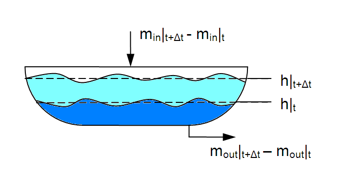 Material balance for a bathtub.